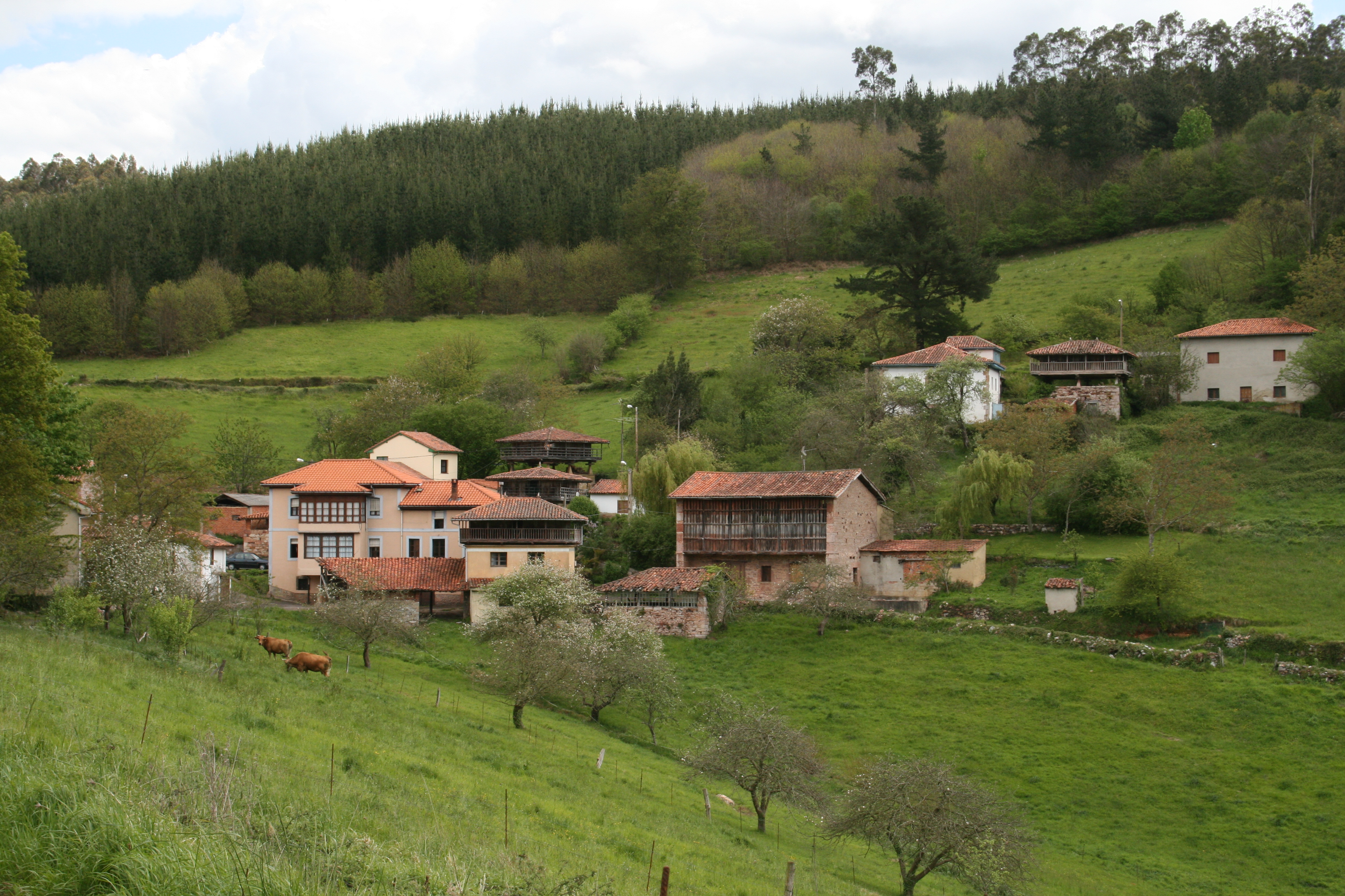 Barrio La Cueva, La Mortera (Candamo)